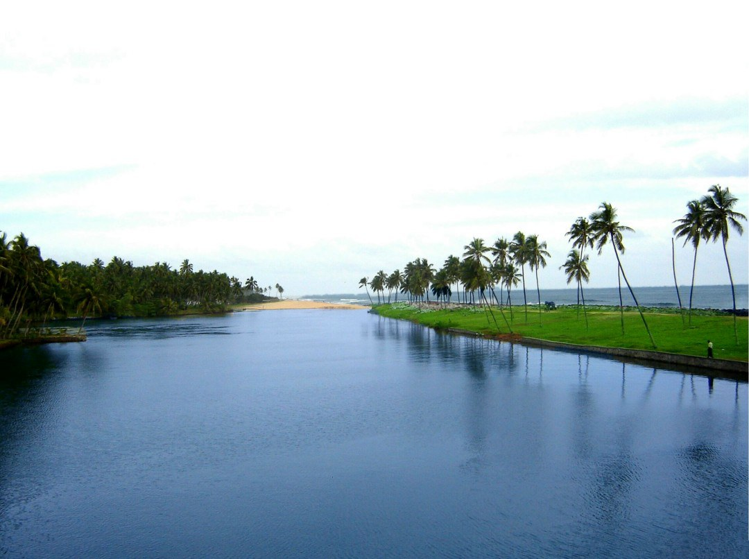 Mouth of Edava Nadayara Lake Varkala to Arabian Sea